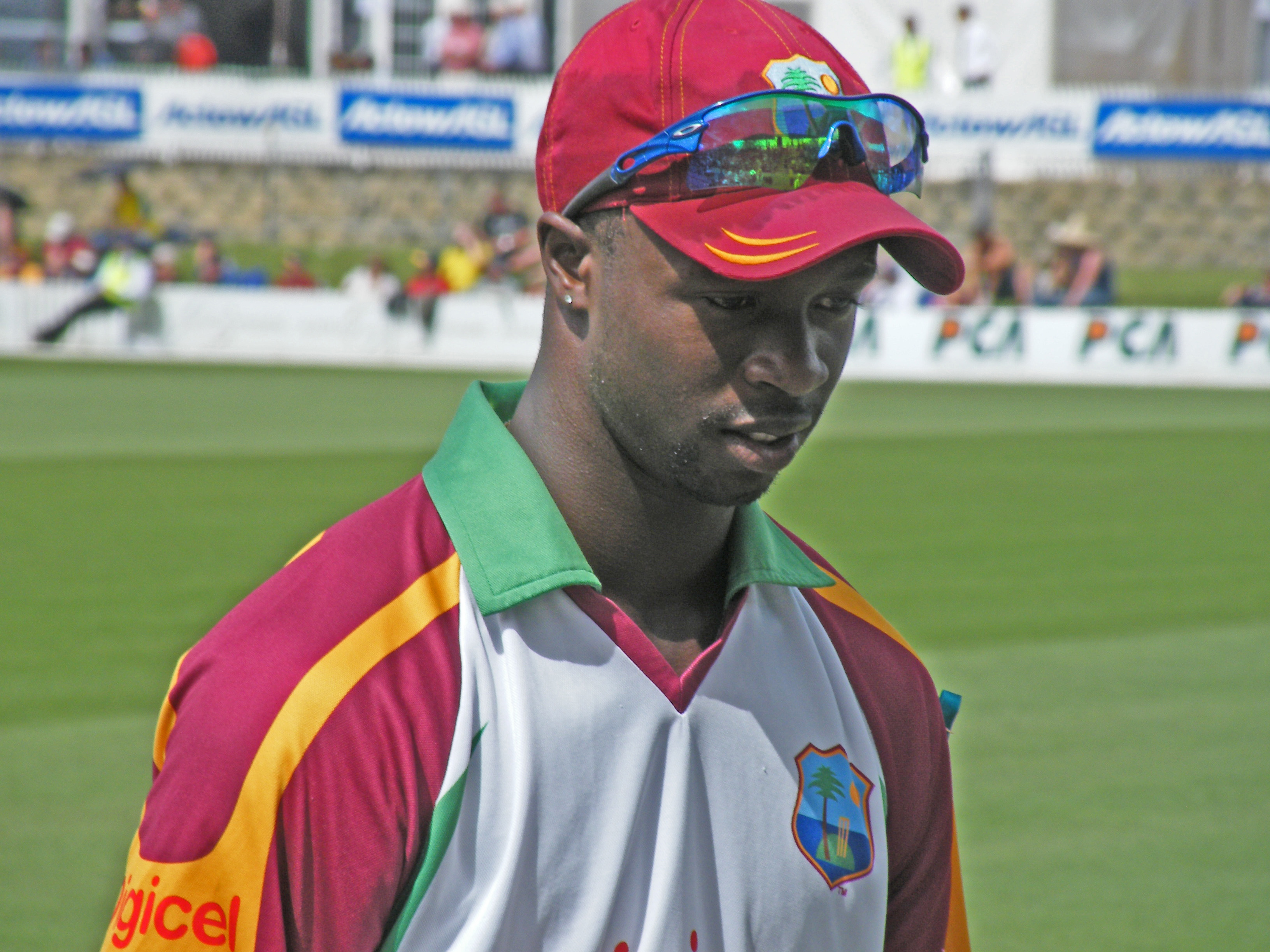 Kemar Roach at the Prime Ministers 11 Cricket match in Canberra 2010.